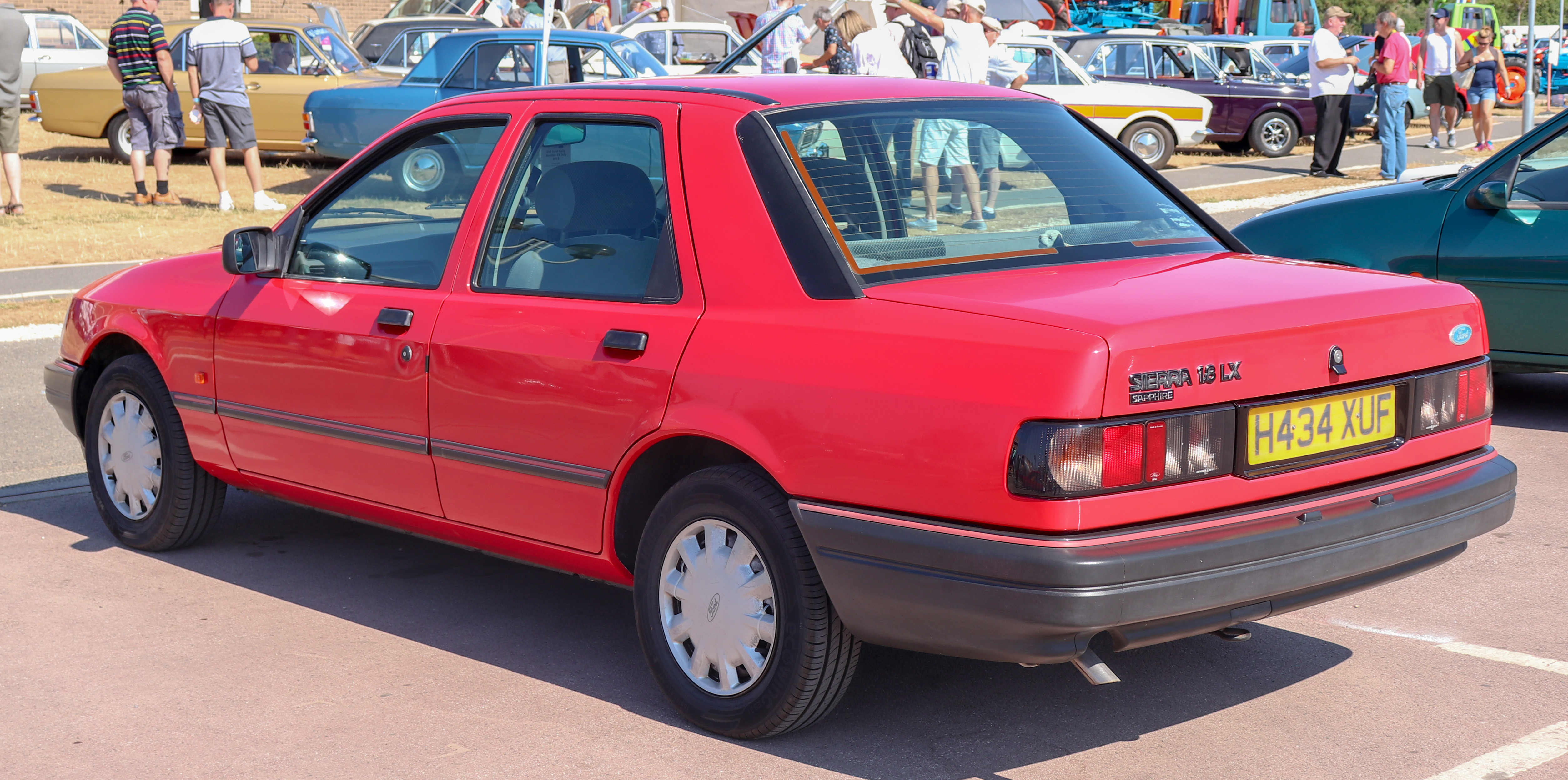 1990 Ford Sierra Sapphire LX 1.8 Rear Taken at the British Motor Museum Old Ford Rally 2018, Gaydon